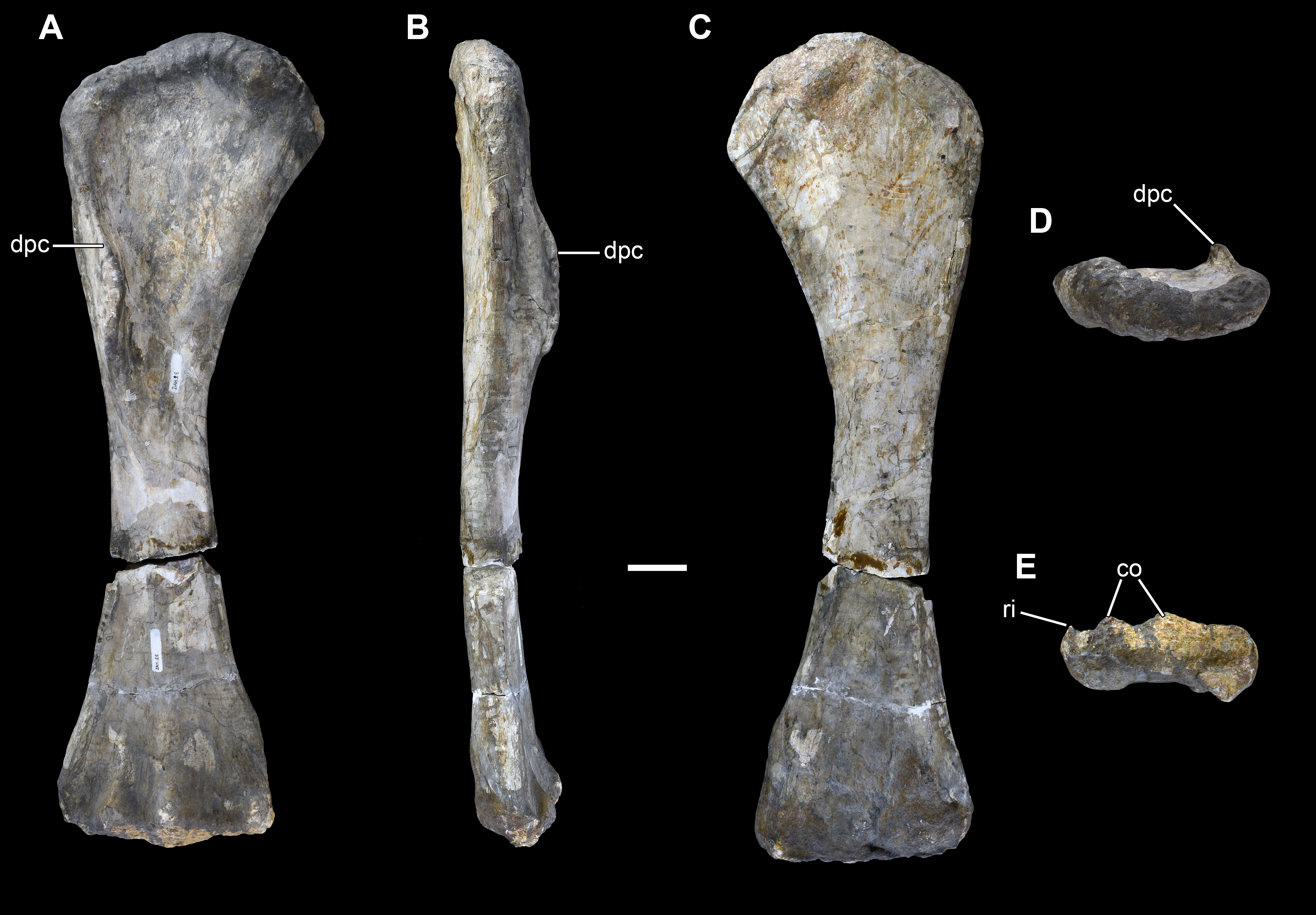 Right humerus of Vouivria damparisensis (MNHN.F.1934.6 DAM 28). (A) Anterior view; (B) lateral view; (C) posterior view; (D) proximal view (anterior towards top); (E) distal view (anterior towards top). Abbreviations: co, condyle; dpc, deltopectoral crest; ri, ridge. Scale bar equals 10 cm.